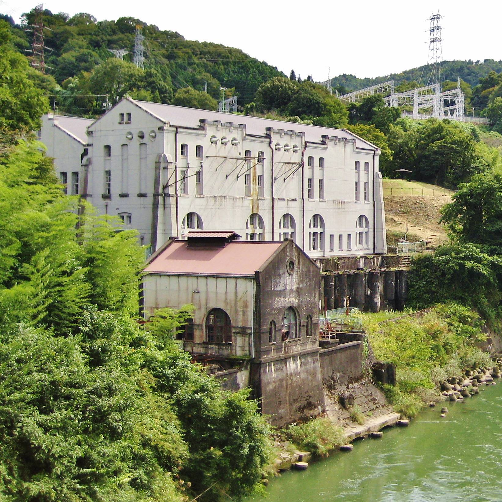 Yaotsu Old Power Plant Museum.